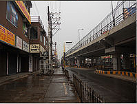 GUWAHATI